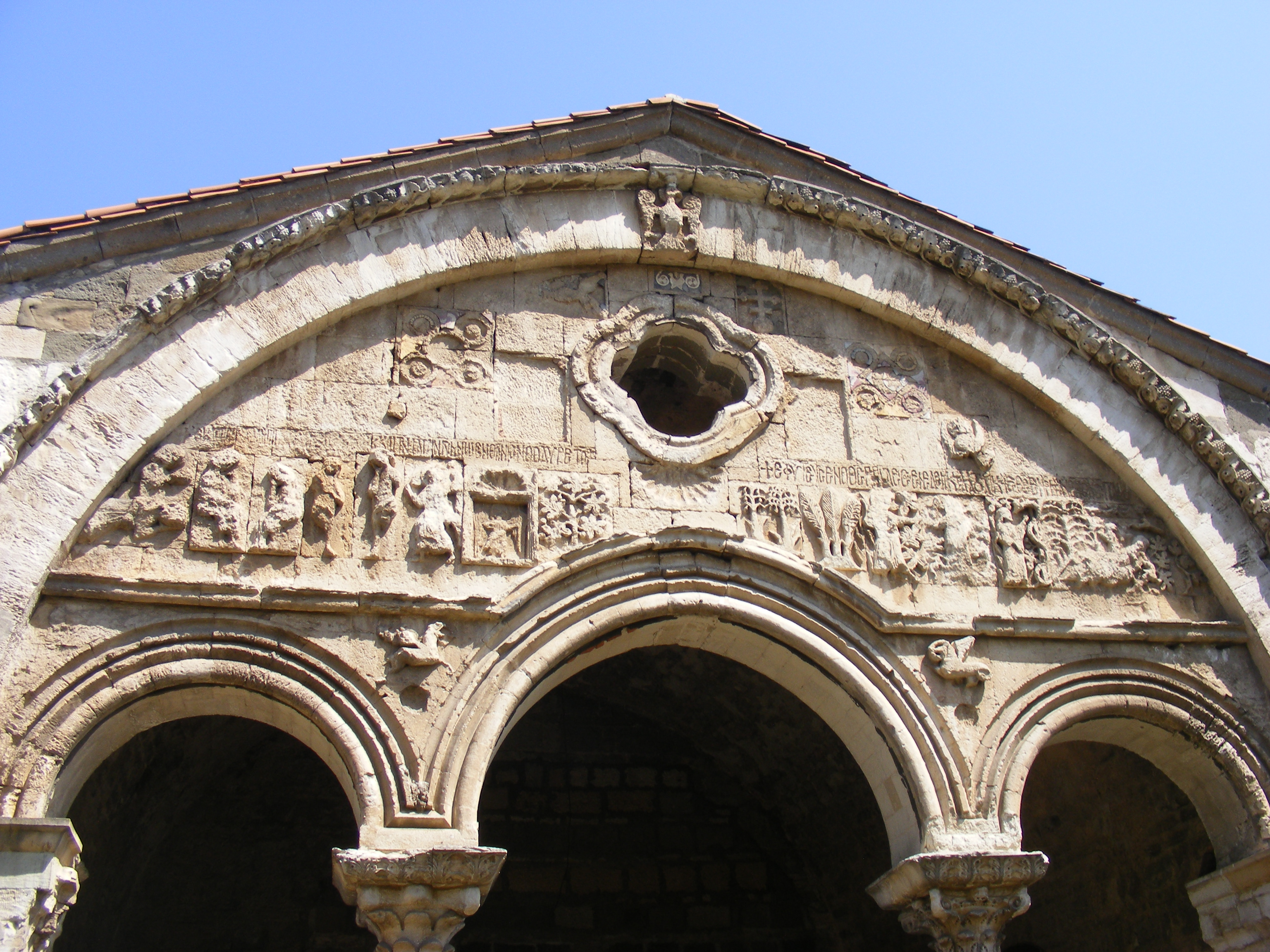 Hagia Sophia porch bas relief, Trabzon